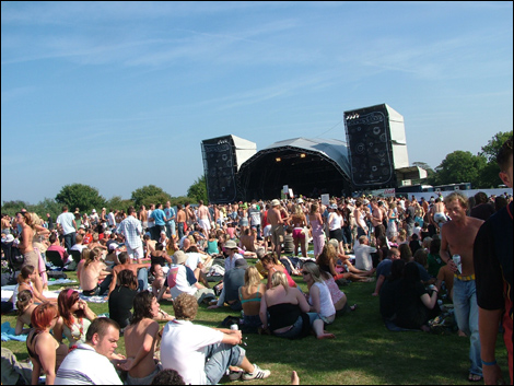 Peoples of Jersey